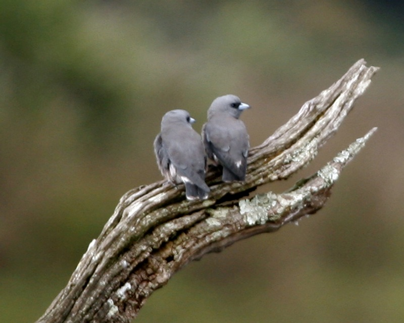 Ashy woodswallow - pair Artamus fuscus Date: October 8, 2007 Location: Thattekad, Kerala, India